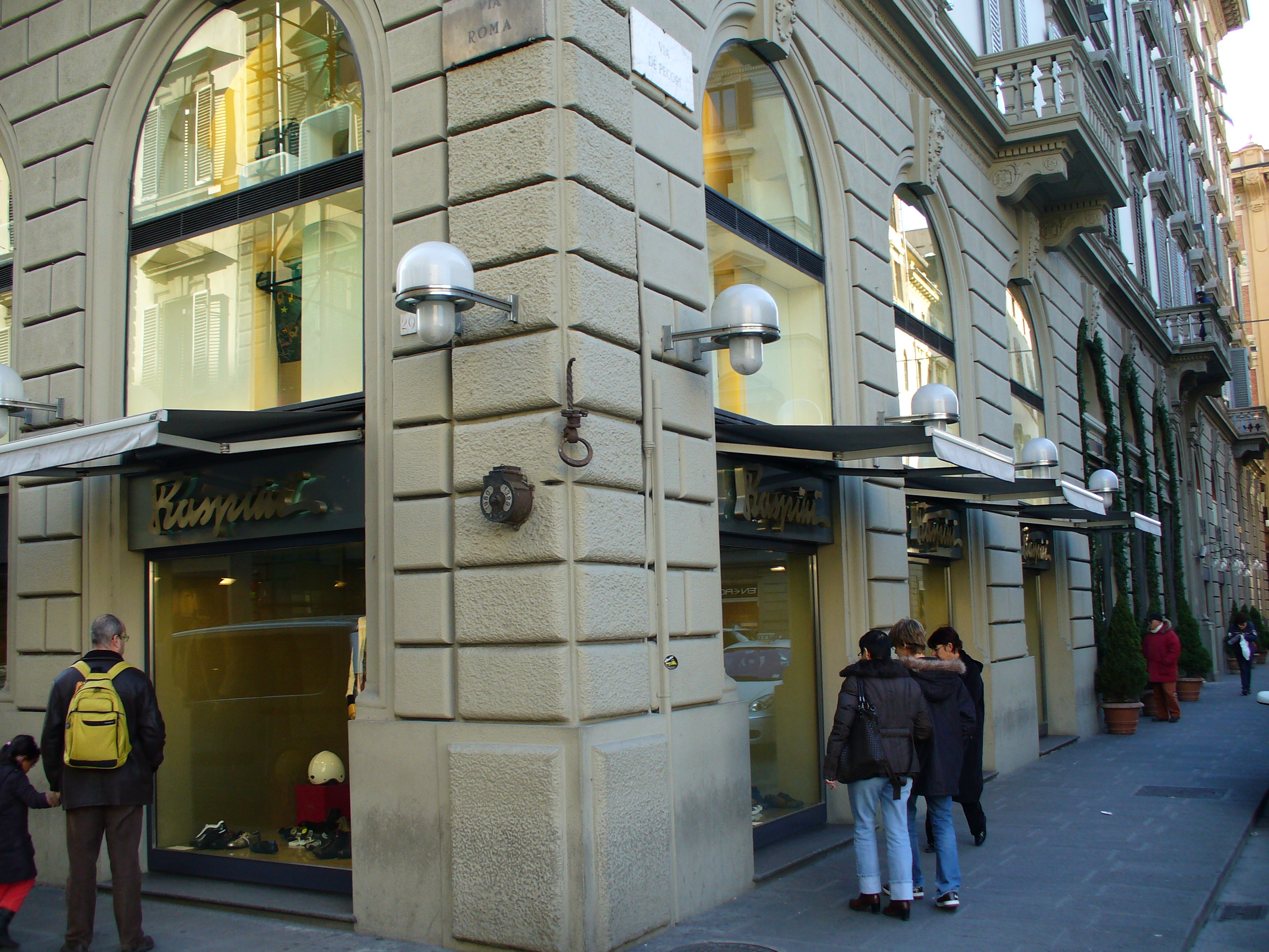 Via Roma (Florence)